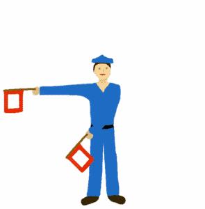 Letter H of the nautical semaphore flag signalling system Source: Martin Hawlisch (User:LosHawlos) My own drawing done in gimp First uploaded to de: in jun-2004